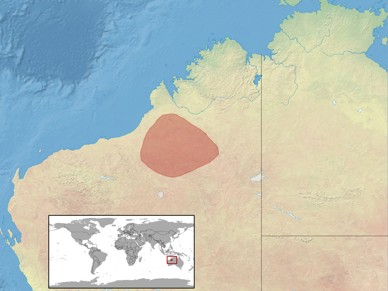 geographic distribution of Lerista vermicularis